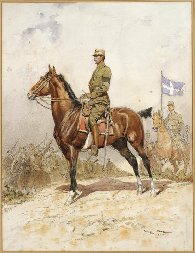 Painting of King Constantine I of Greece during the Second Balkan War